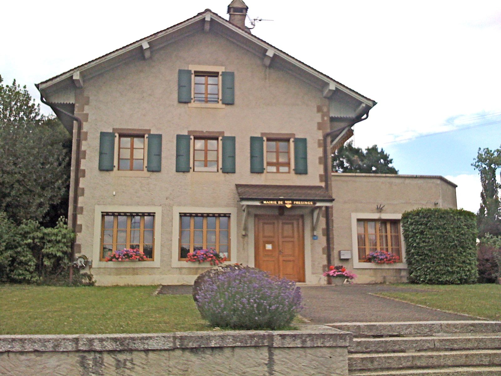 Town Hall in Presinge, GE, Switzerland